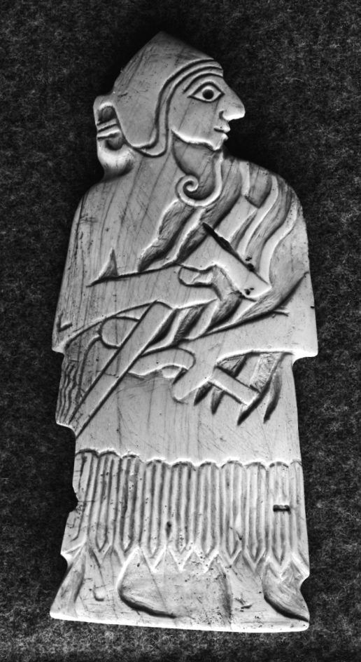 Warrior with axe, Mari, January 1935